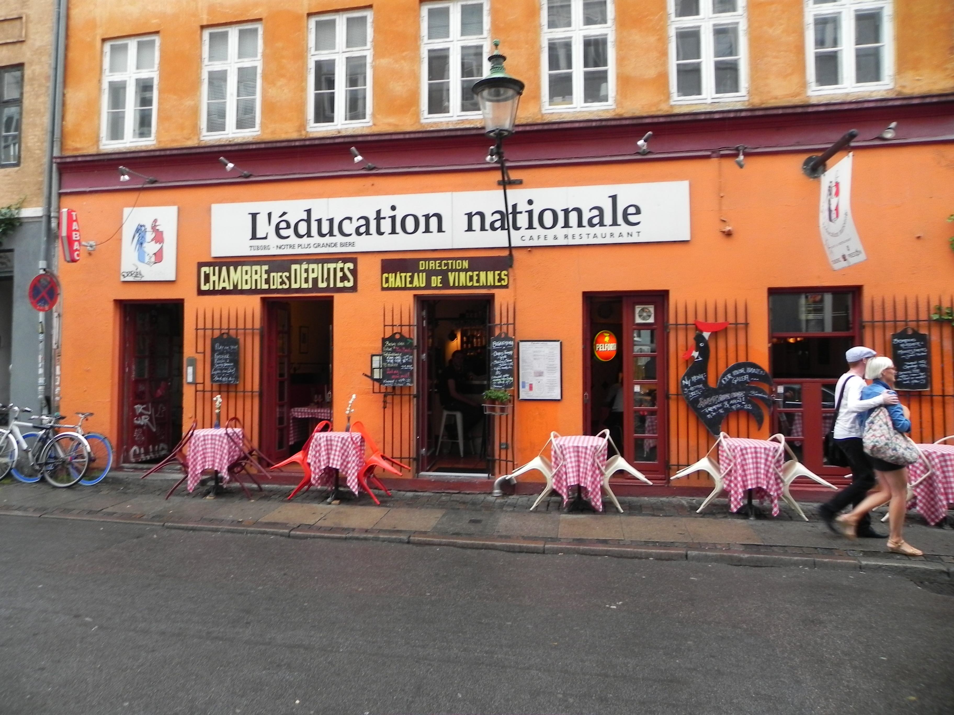 L'éducation National in Larsbjørnstræde in central Copenhagen, Denmark